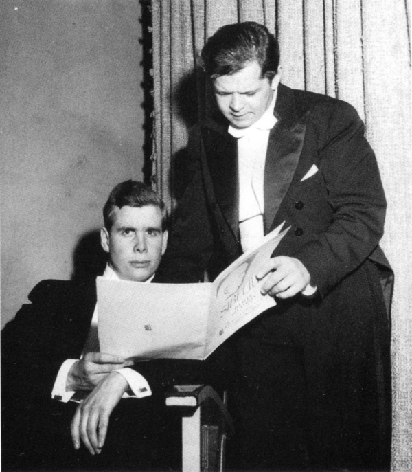 Photograph of the Finnish vocalist Tom Krause (1934–2013) and the pianist Pentti Koskimies (1922–1992).